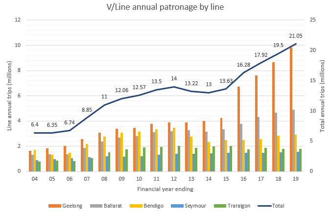 Chart of total rail passenger trips in millions for each financial year from 2004 to 2018 for Victorian rail operator V/Line. The chart also shows line totals for each of the five V/Line commuter lines. Note that long-distance rail patronage is included in the total for each commuter line: that is, Warrnambool passengers are counted in the Geelong line total; Ararat and Maryborough in the Ballarat total; Swan Hill and Echuca in the Bendigo total; Shepparton and Albury in the Seymour total; and Bairnsdale in the Traralgon total. The data is sourced from V/Line annual reports in the period; the chart was created with Microsoft Excel.